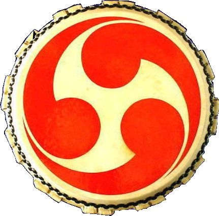 A Japanese tomoe design of a taiko drum. 太鼓の巴紋